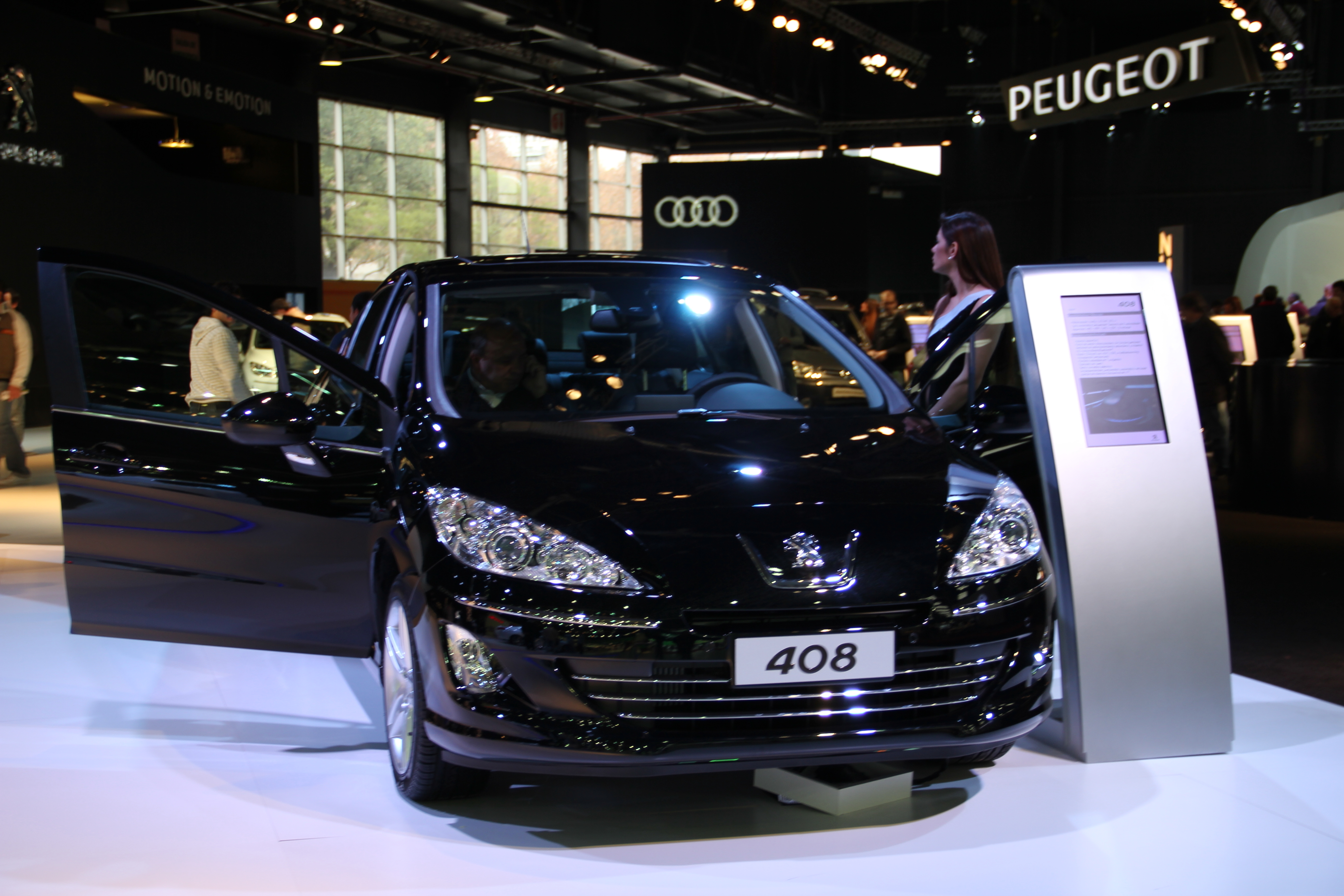 Peugeot 408 at 2011 BA Motor Show. Front